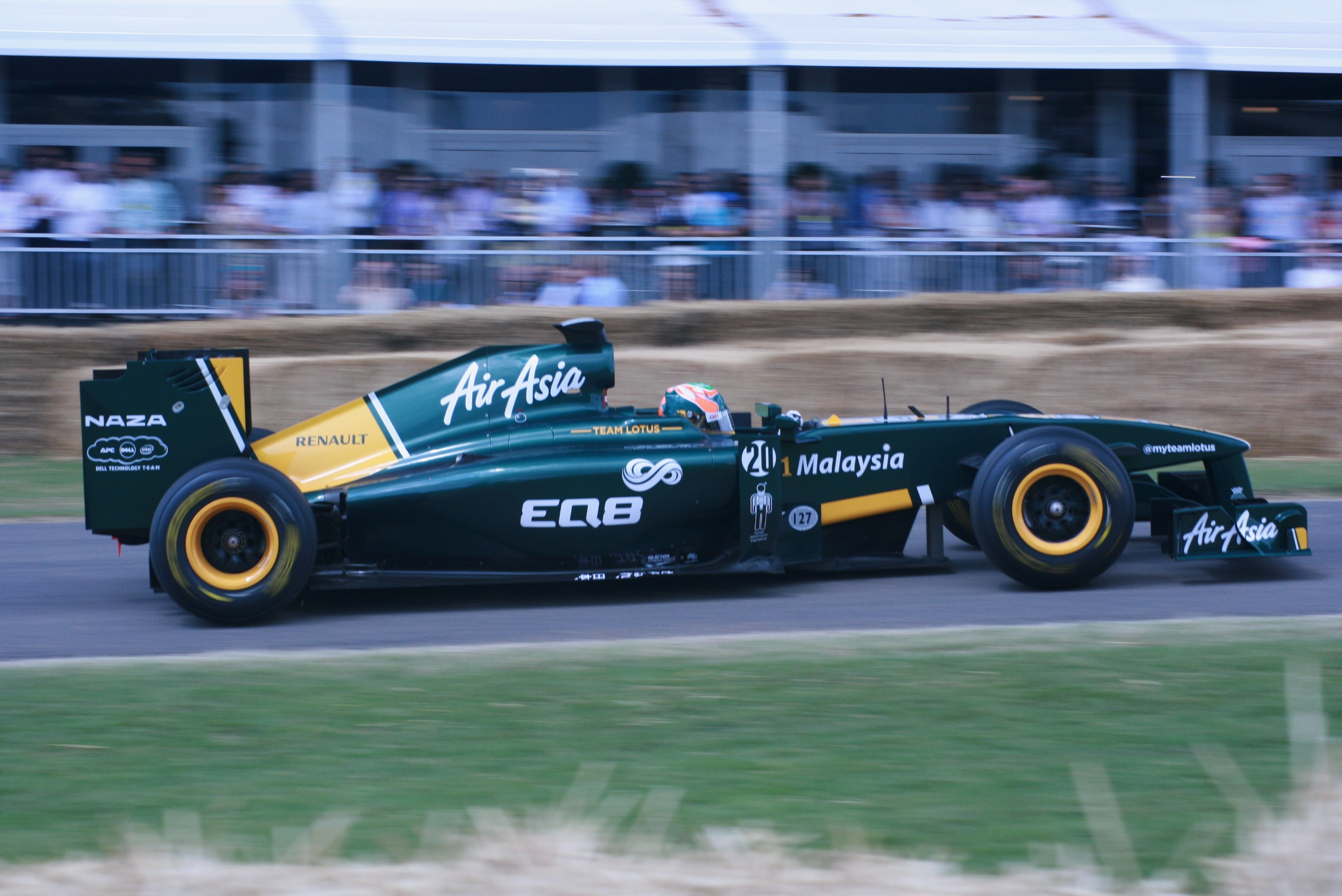 Karun Chandhok in Lotus-Cosworth T127 during Goodwood Festival of Speed 2011